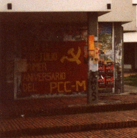 Partido Comunista Colombiano - Maoista mural at Universidad Nacional, Bogotá, celebrating its 1st anniversary. Picture taken in 2002. Photo: Soman